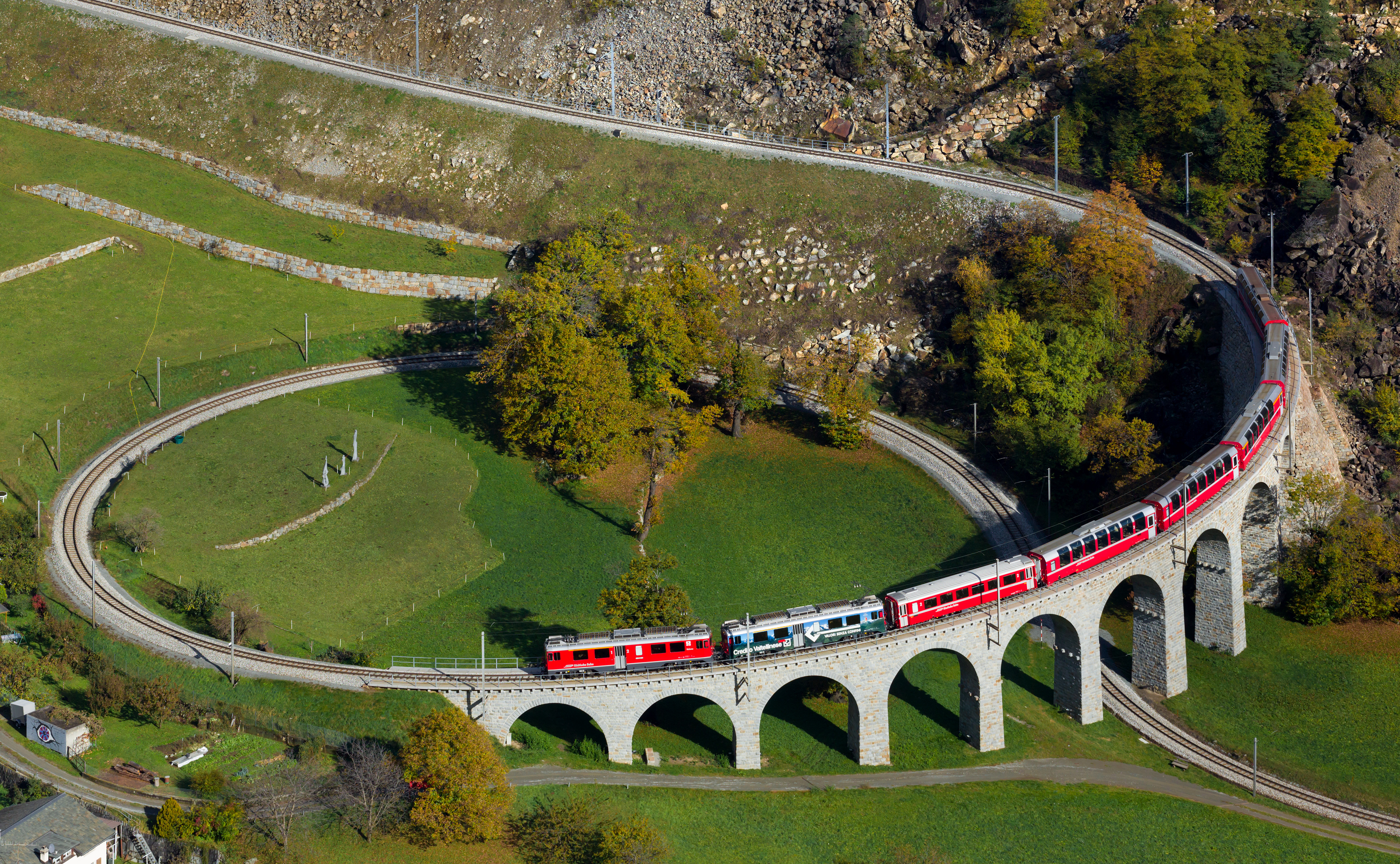 Two Rhaetian Railways ABe 4/4 III multiple units with a local train from St. Moritz to Tirano are just crossing the Brusio spiral viaduct. Picture taken near Brusio, Switzerland. සිංහල: ස්විට්සර්ලන්තයේ බෘසියෝ වල පිහිටා ඇති සර්පිලාකාර දුම්රිය මාර්ගය